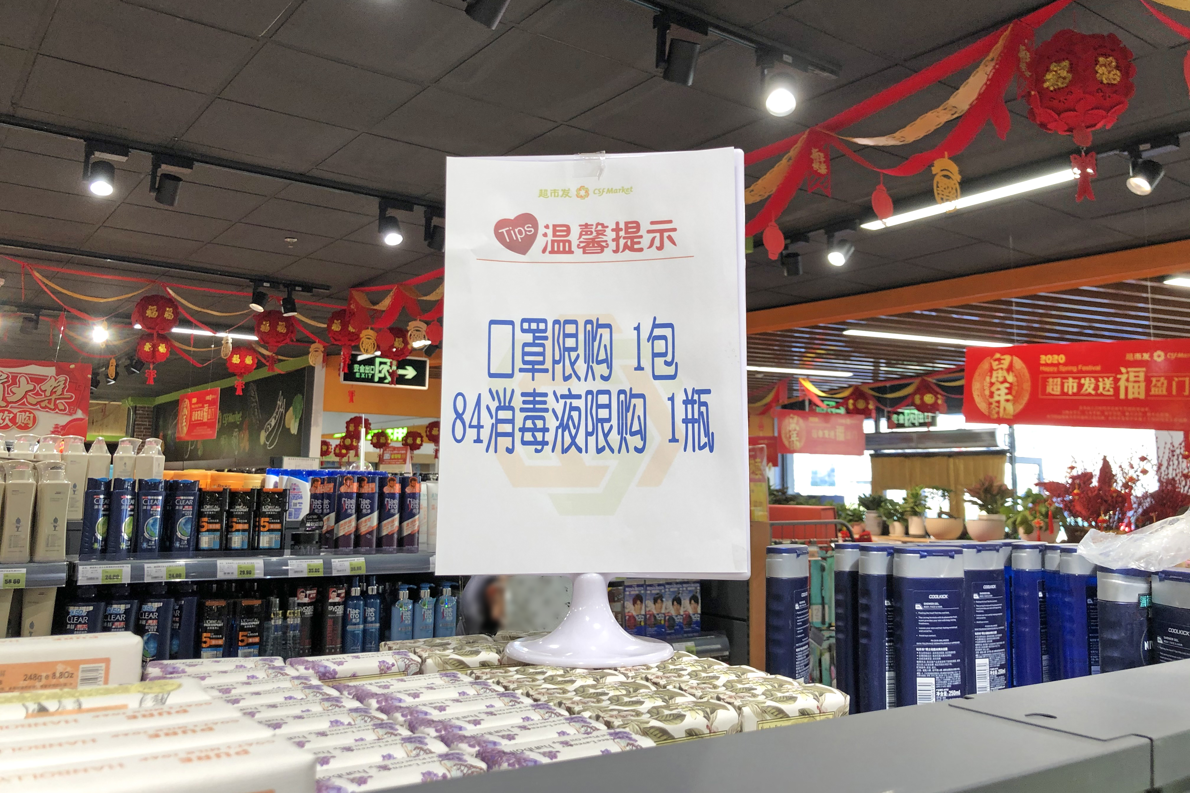 A customer can only buy one surgical mask per day.